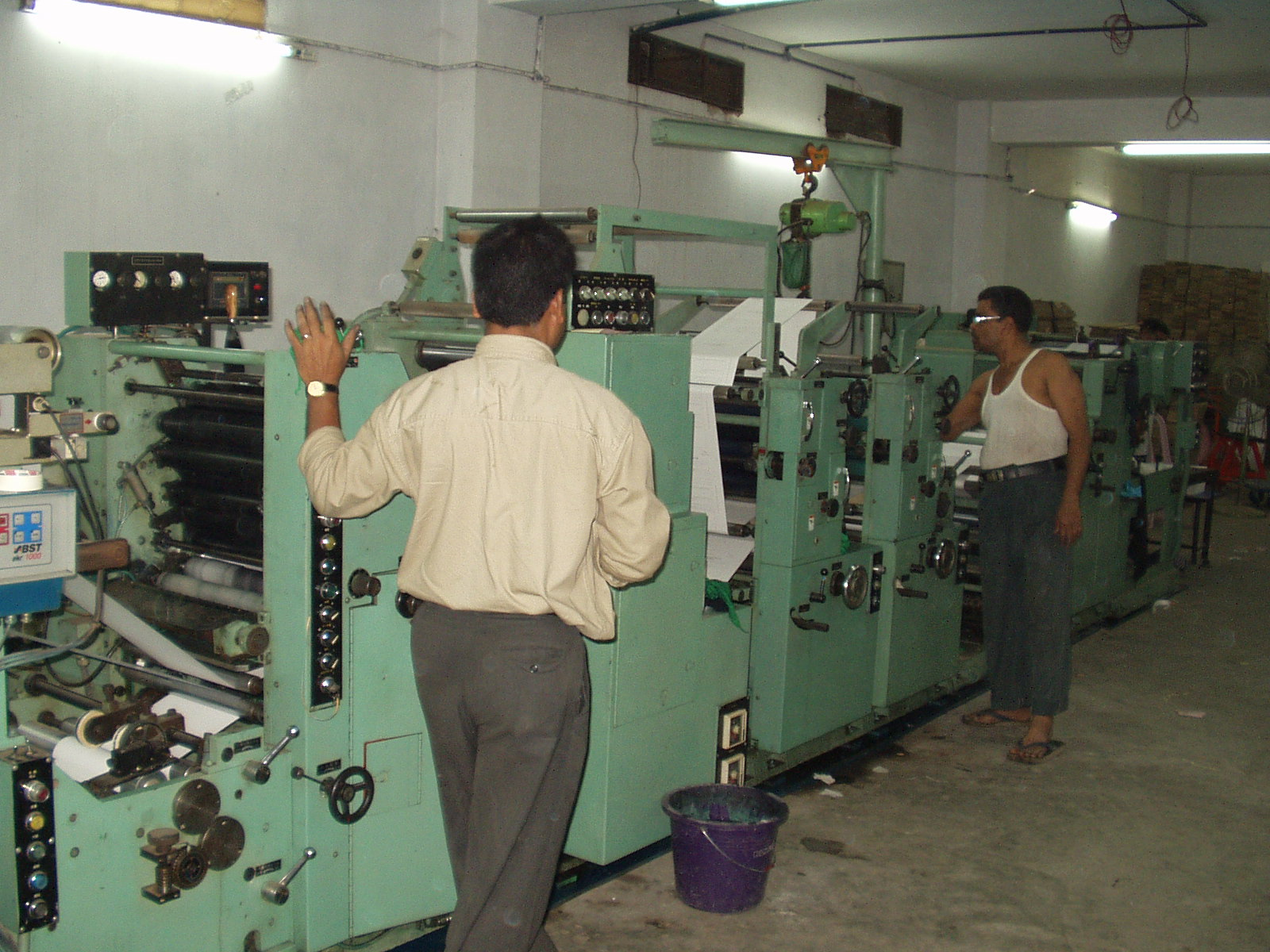 continious print machine. Mamun2a 06:50, 24 August 2006 (UTC)